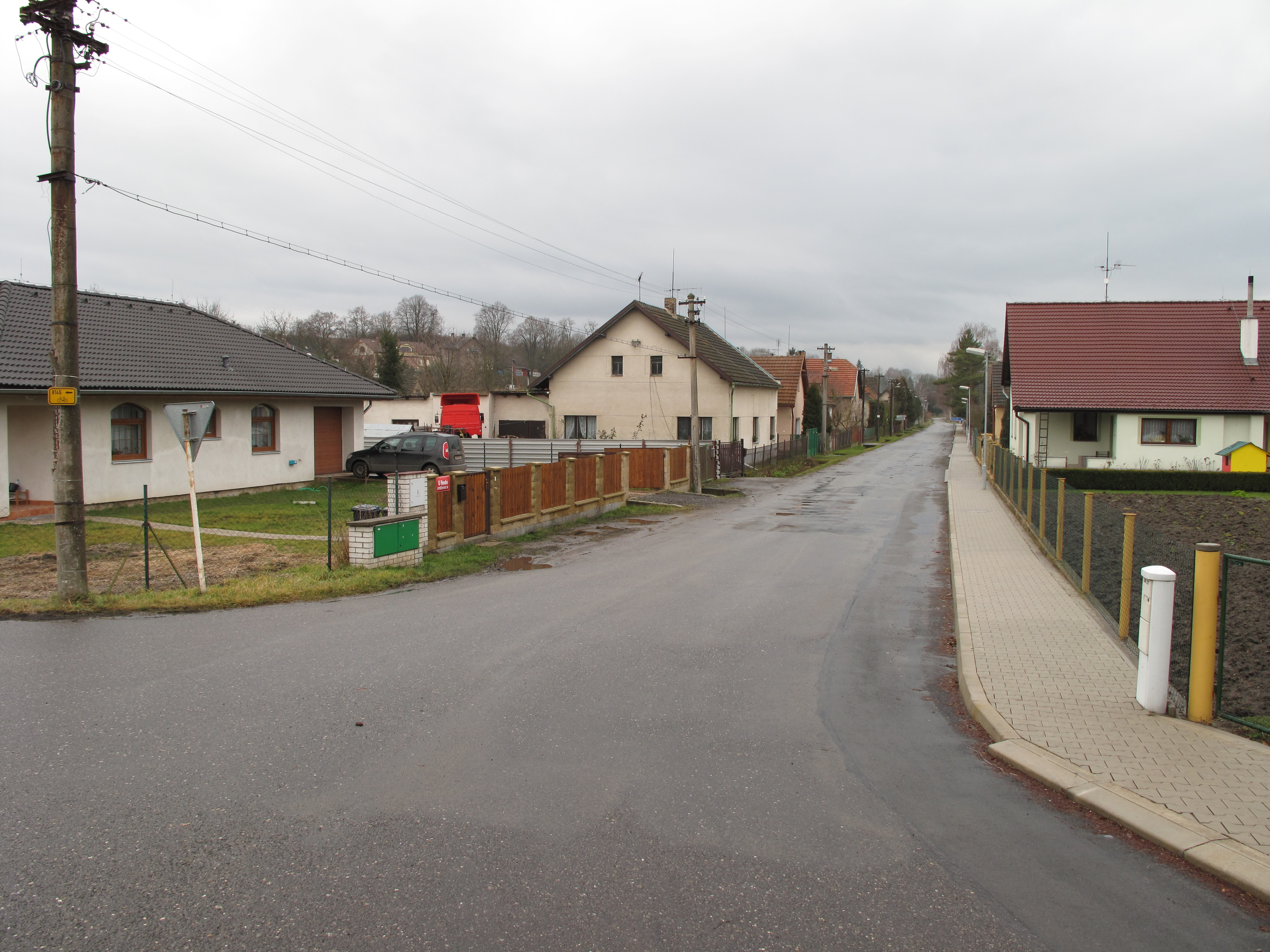 Houses by road in Střížovice village (Kropáčova Vrutice municipality), Mladá Boleslav District, Czech Republic.